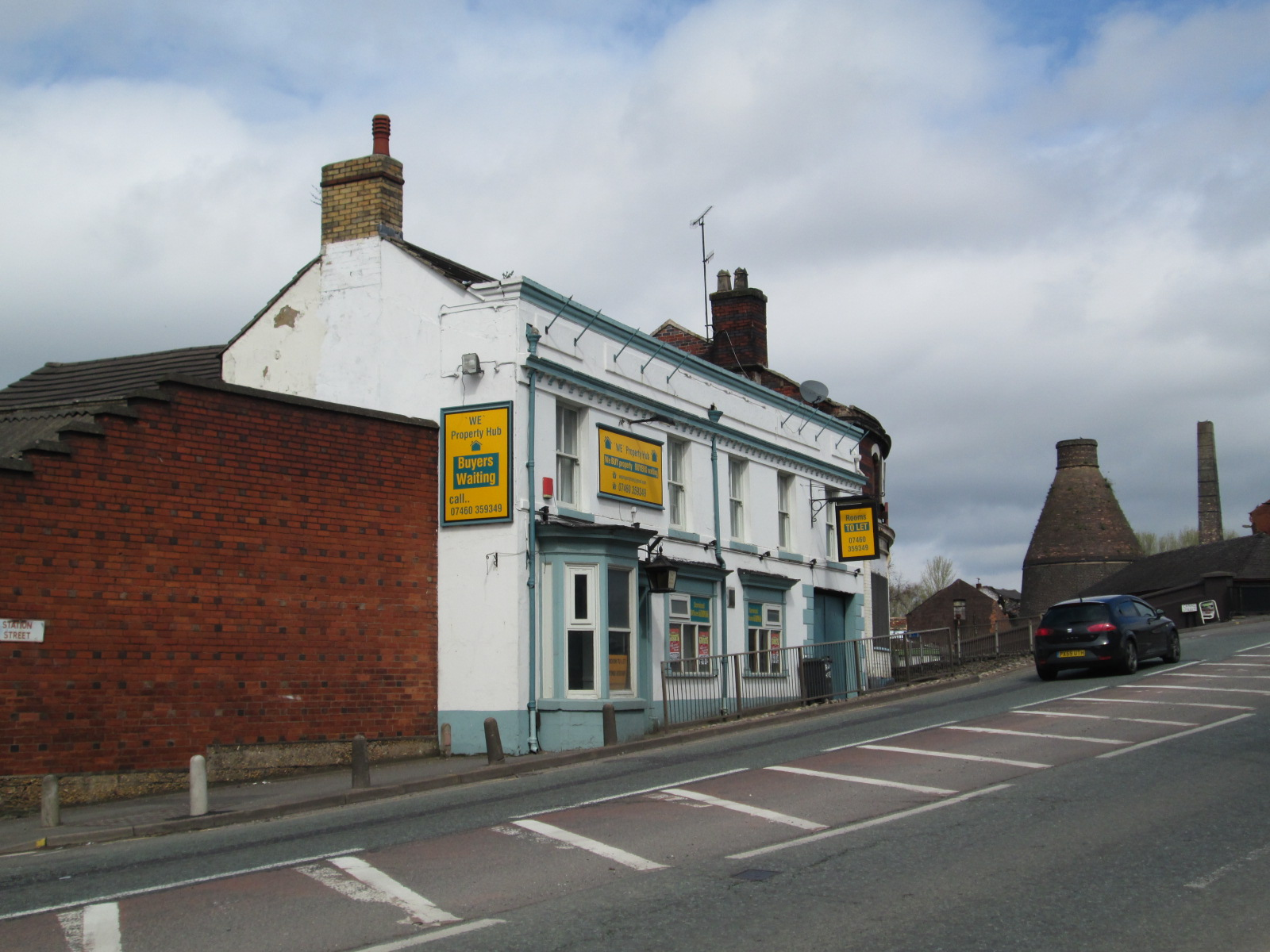 Adjacent to the bridge over the Trent and Mersey Canal, in Longport, Staffordshire, the former Pack Horse Inn. A bottle kiln can be seen at the pottery across the canal.